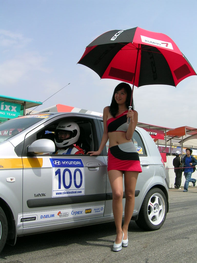 Yong-In Everland Speedway, South Korea